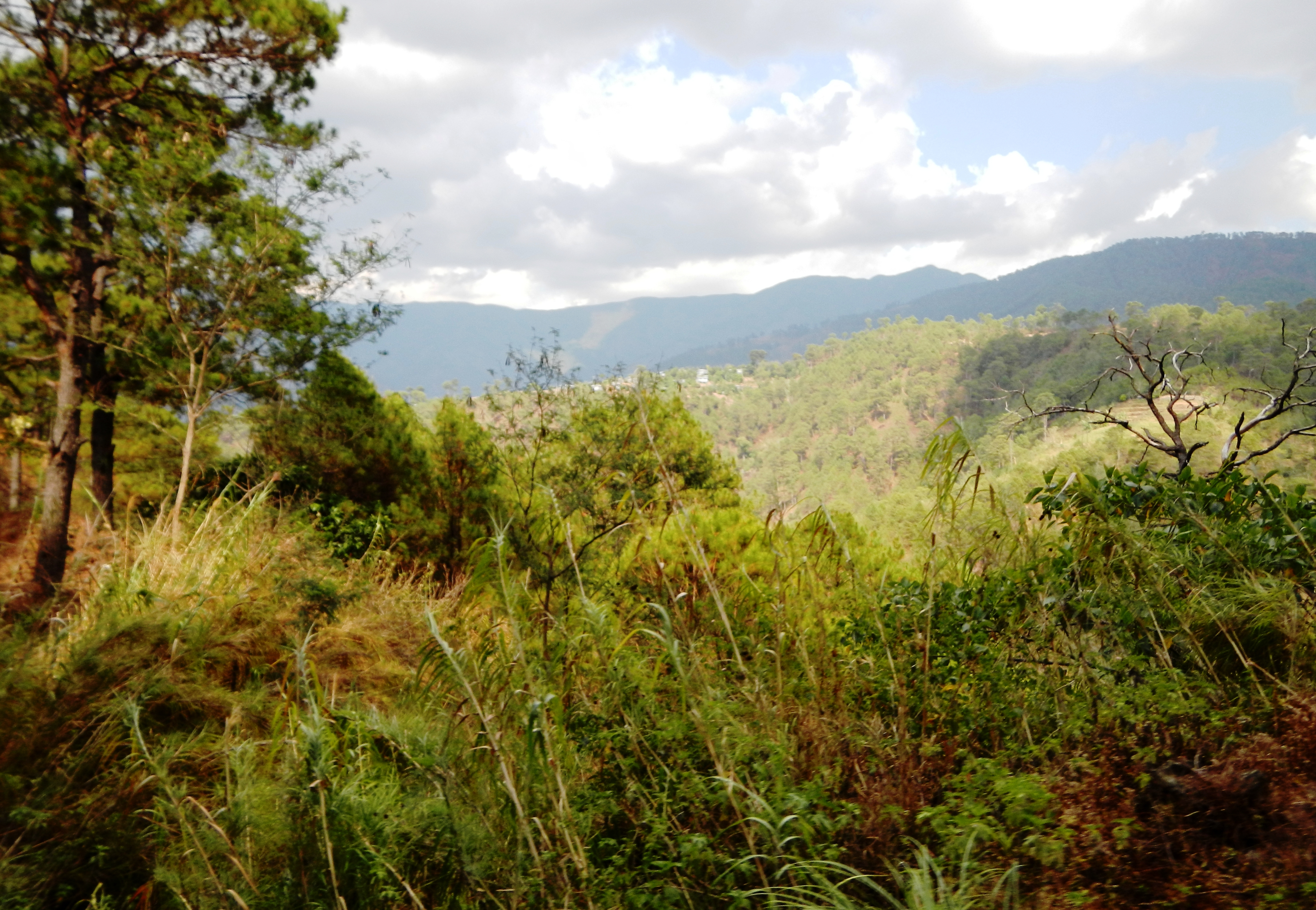 Landscape, scenery, panoramic, mountain ranges, Karao-Ekip Road, the Aritao-Kayapa-Bokod-Baguio Road, Bokod, Benguet Benguet province, Philippines gateway to Gurel Bokod Central and Town Hall.